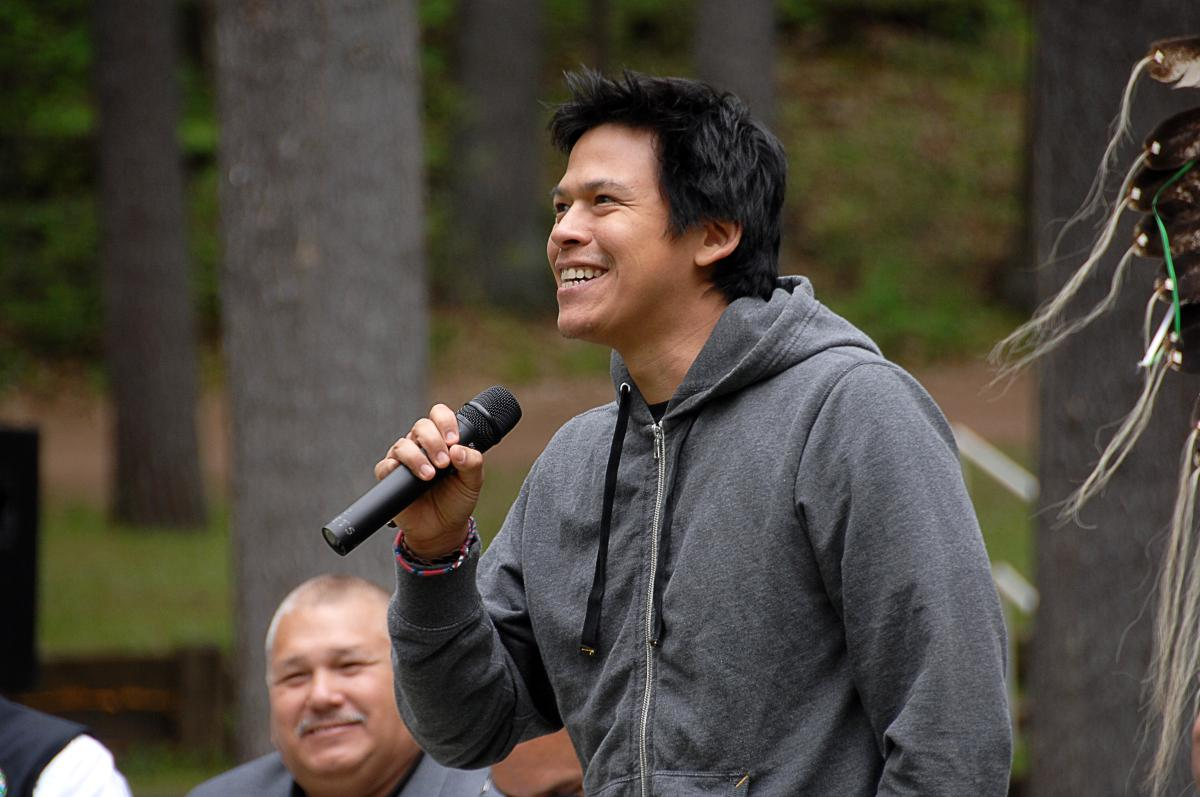 Chaske Spencer is a member of the Fort Peck Tribe of Montana and a role model for Native youth. As a child, the actor reported that he personally struggled to find access to healthy food on the reservation, “Both of my parents worked and there were days when I would come home from school and buy a candy bar and soda from the local convenience store for dinner. It’s hard to eat healthy, but 70% of staying healthy, comes from a healthy diet” he says. In addition, Chaske says that he is excited to be a part of the First Lady’s Let’s Move! in Indian Country initiative and help promote the message to build healthier communities across Indian Country.